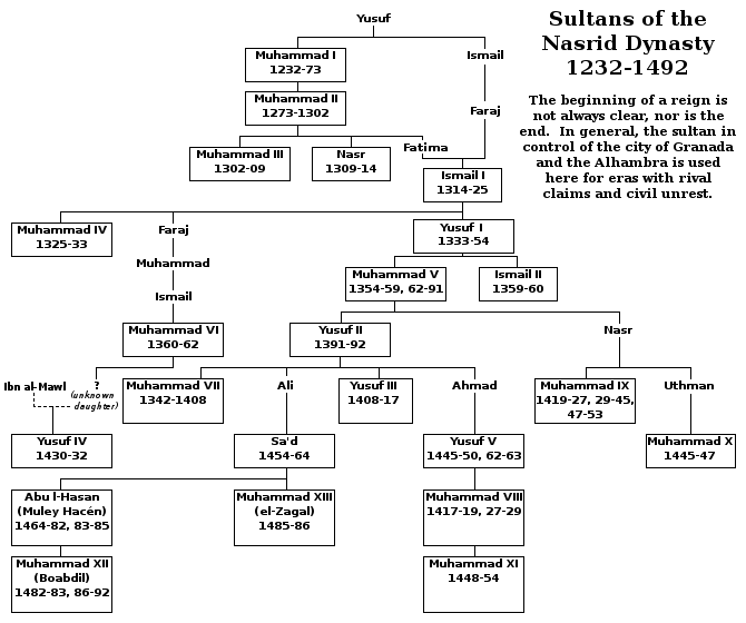 Genealogical table of Sultans (also called Kings and Emirs) of the Nasrid Dynasty, which ruled the Emirate of Granada (Kingdom of Granada) from 1232-1492. Daughters are not included as not generally being able to inherit the throne, with the one notable exception of Muhammad VI's daughter whose name has been lost, who was able to give a royal claim to her son Yusuf IV. Members of the dynasty on the list without a date indicates that they never ruled. As is noted in the image, the throne was often disputed, especially in Granada's last century of existence. This image uses the dates in the updated Prescott (details below), while other sources use different dates. These dates, in general, give the throne to whoever controlled the Alhambra (the royal palace of Granada), even if other claimants ruled other cities. For example, while Muhammad XIII (al-Zagal) was expelled from the city of Granada in 1486, he continued to fight on out of Baza, Guadix, and Almería from 1486-89, was the leader of main resistance to the Castilian-Aragonese armies, and never renounced the title of Sultan. Source: Prescott, William H.; edited and annotated by Albert D. McJoynt (1995). The Art of War in Spain: The Conquest of Granada, 1481-1492. London: Greenhill Books. ISBN 1-85367-193-2. (An extract from Prescott's 1838 book History of the Reign of Ferdinand and Isabella the Catholic, updated with modern scholarship and commentary.)